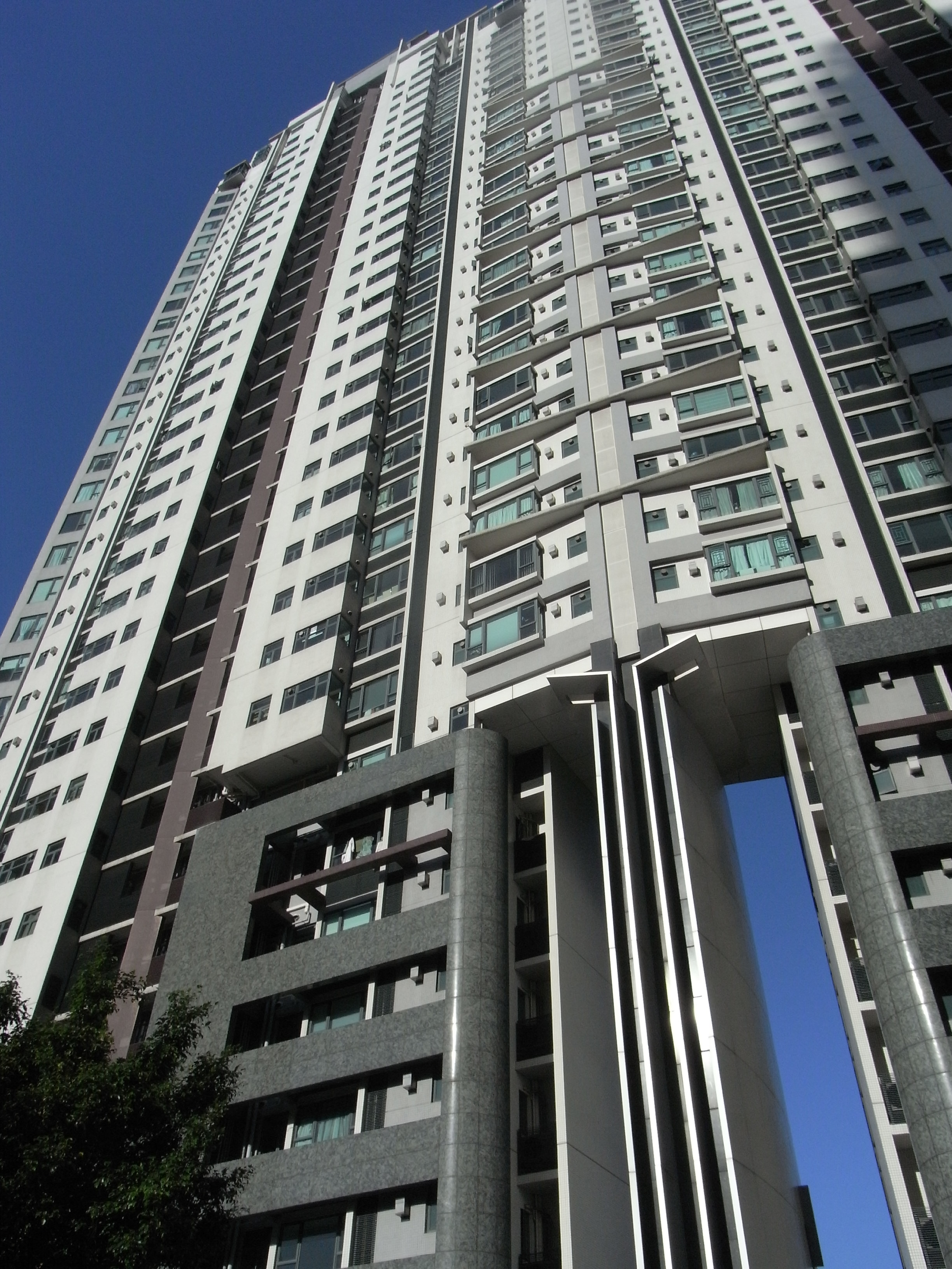 香港島zh:半山區 羅便臣道 羅便臣道80號